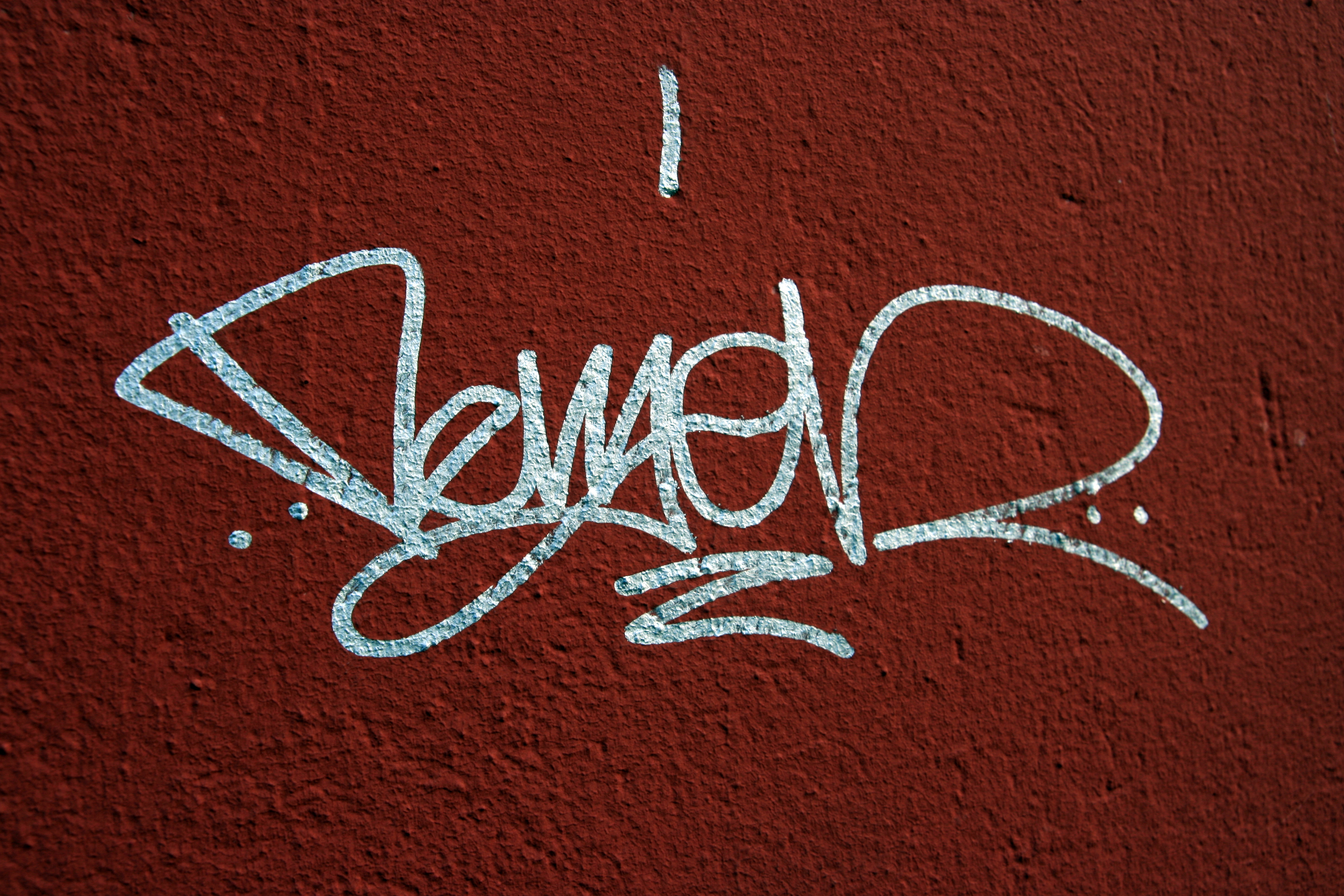 Tag on a wall in Malmö, Sweden, by unknown graffiti artist.